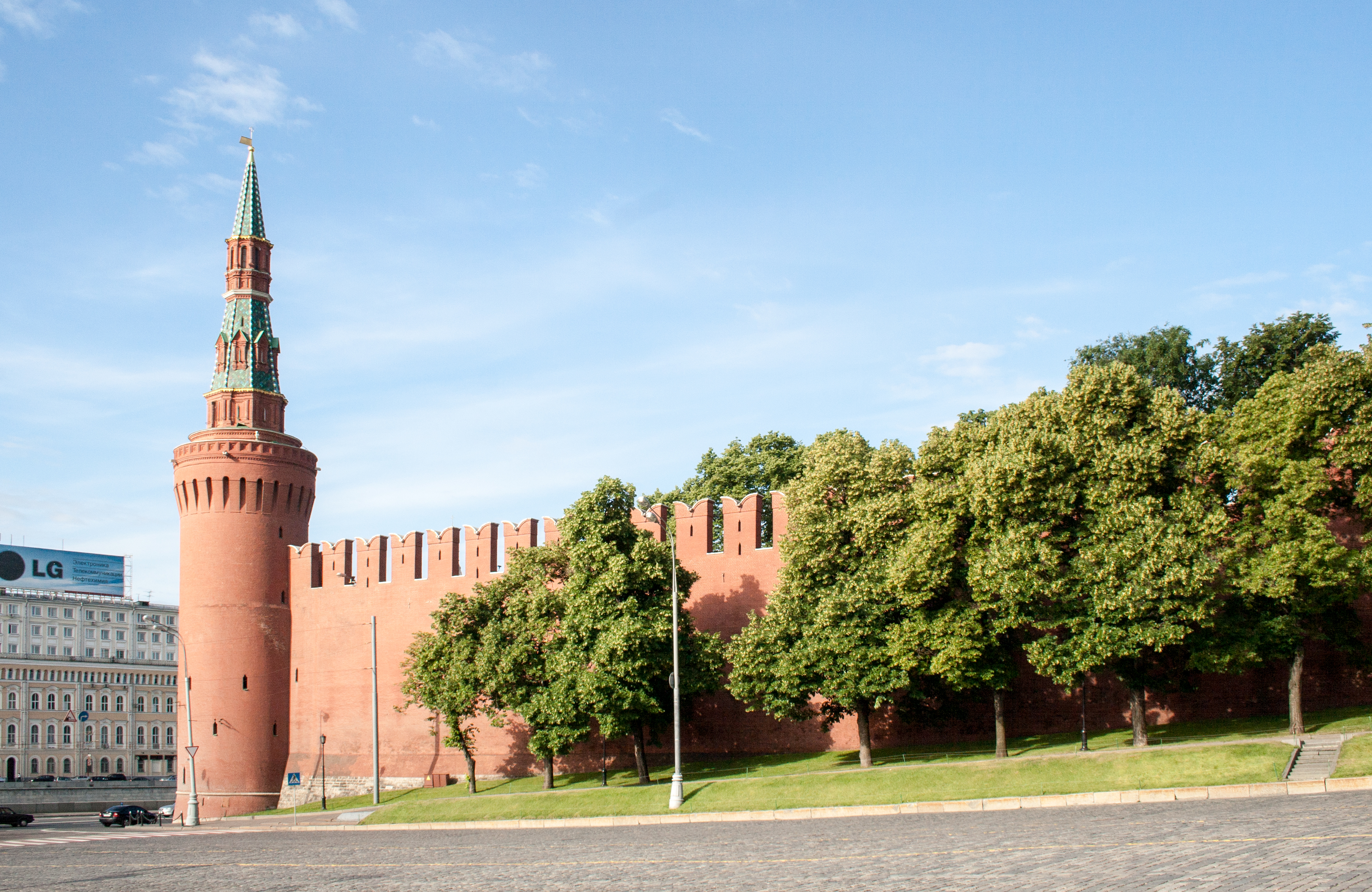 Beklemishevskaya Tower of Moscow Kremlin